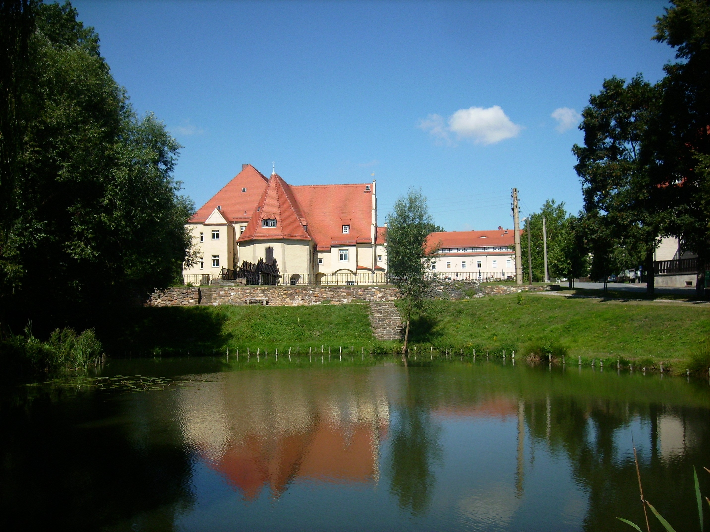 Schleinitz Castle with pond (Leuben-Schleinitz, Meissen district, Saxony)